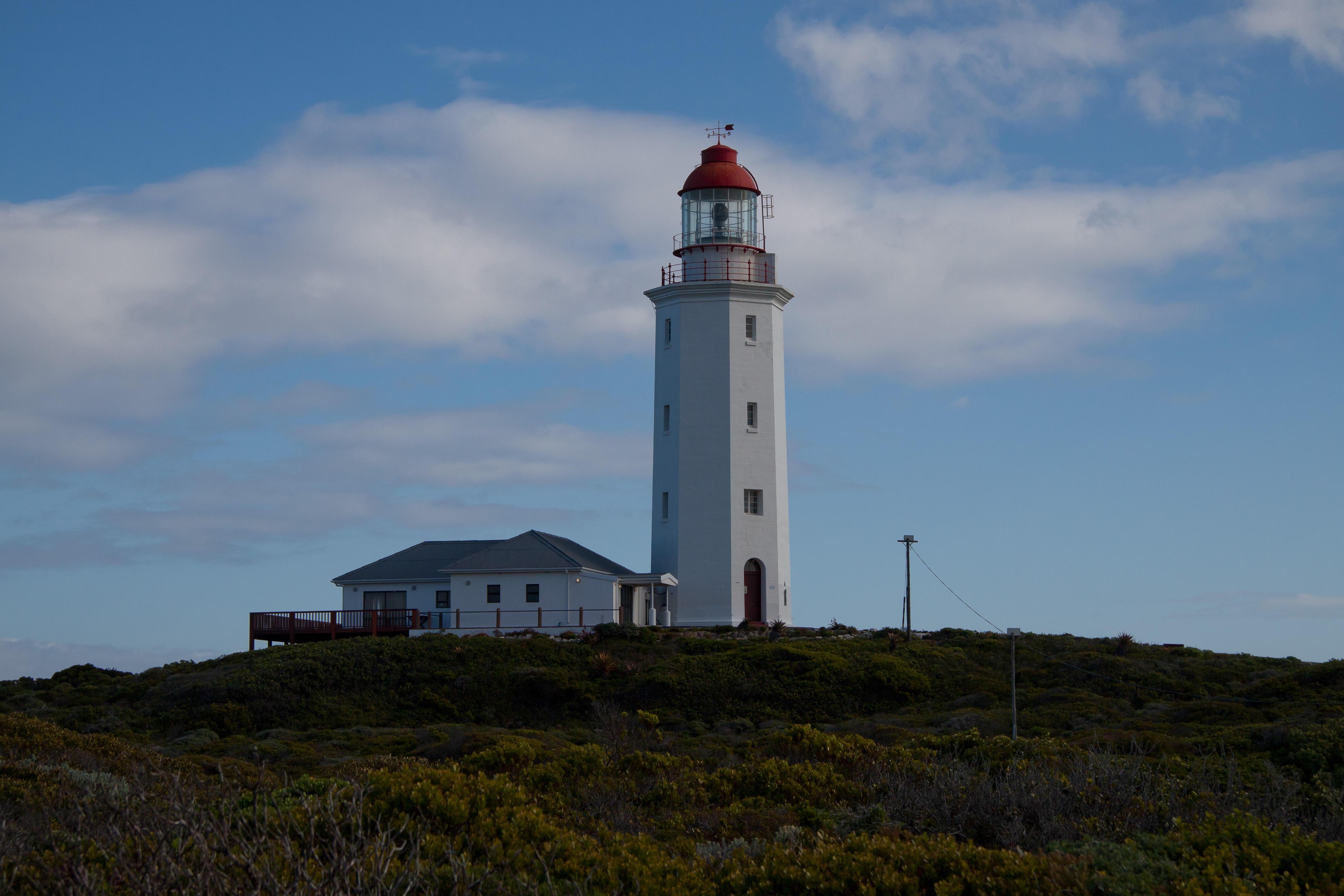 Danger Point Lighthouse, near Gansbaai, Western Cape, South Africa, established 1895